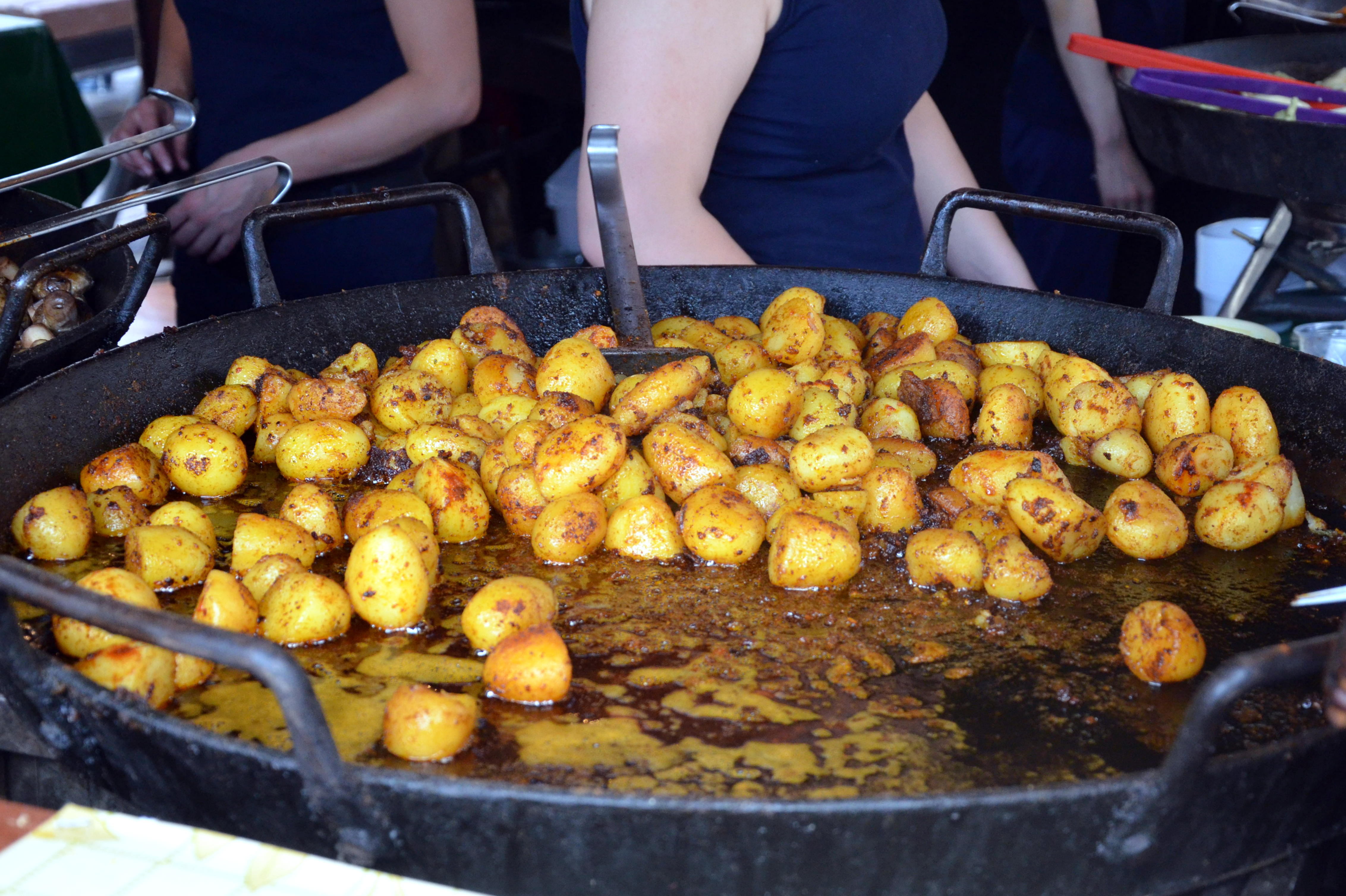 July 2014 in Poland